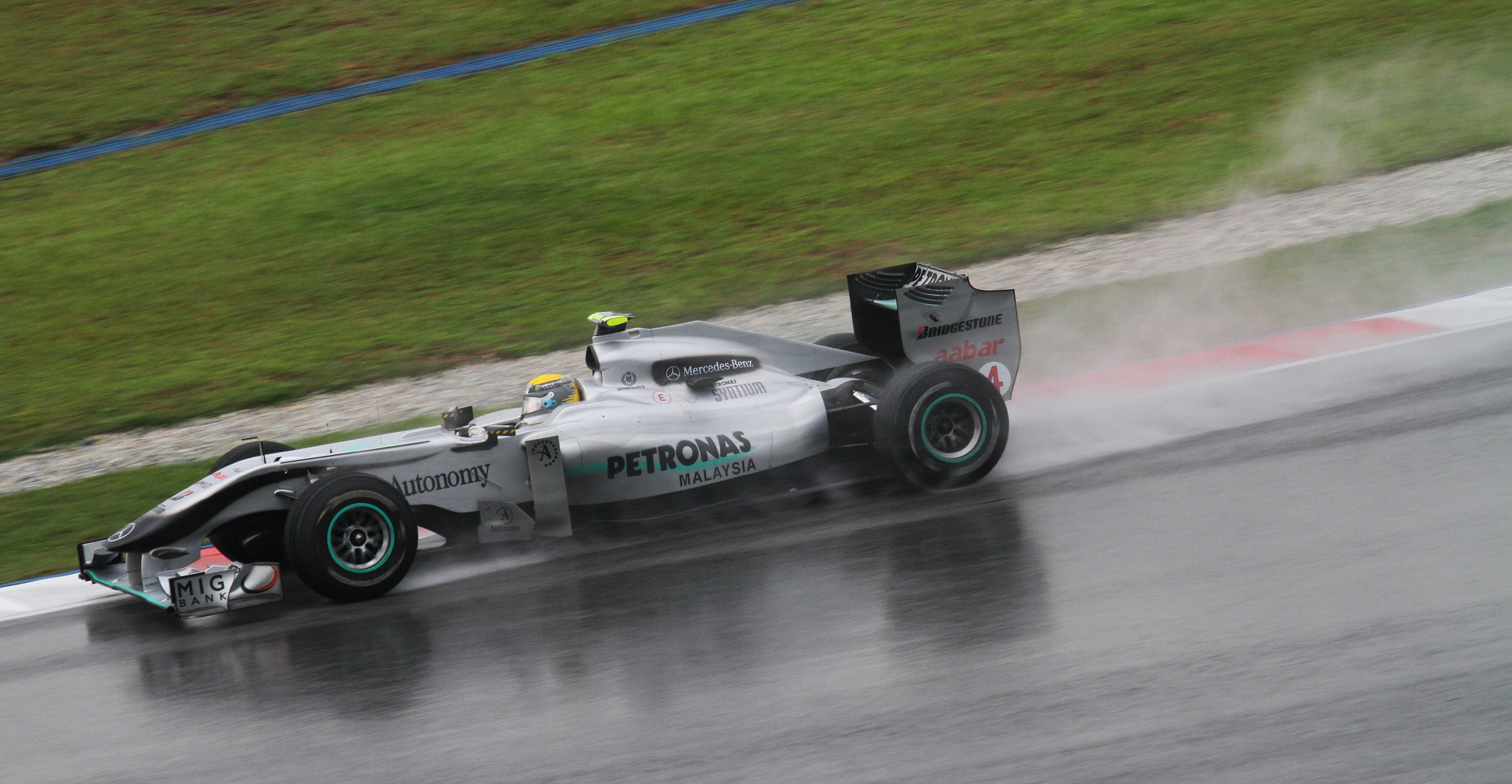 Formula One 2010 Rd.3 Malaysian GP: Nico Rosberg (Mercedes GP) in Saturday 3rd Qualify session.